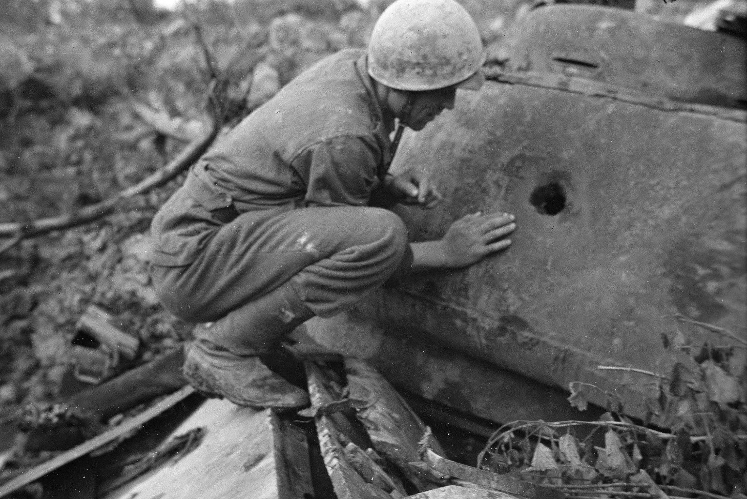 A hole made by Panzerfaust warhead on a Soviet tank turret during Äyräpää-Vuosalmi battle.